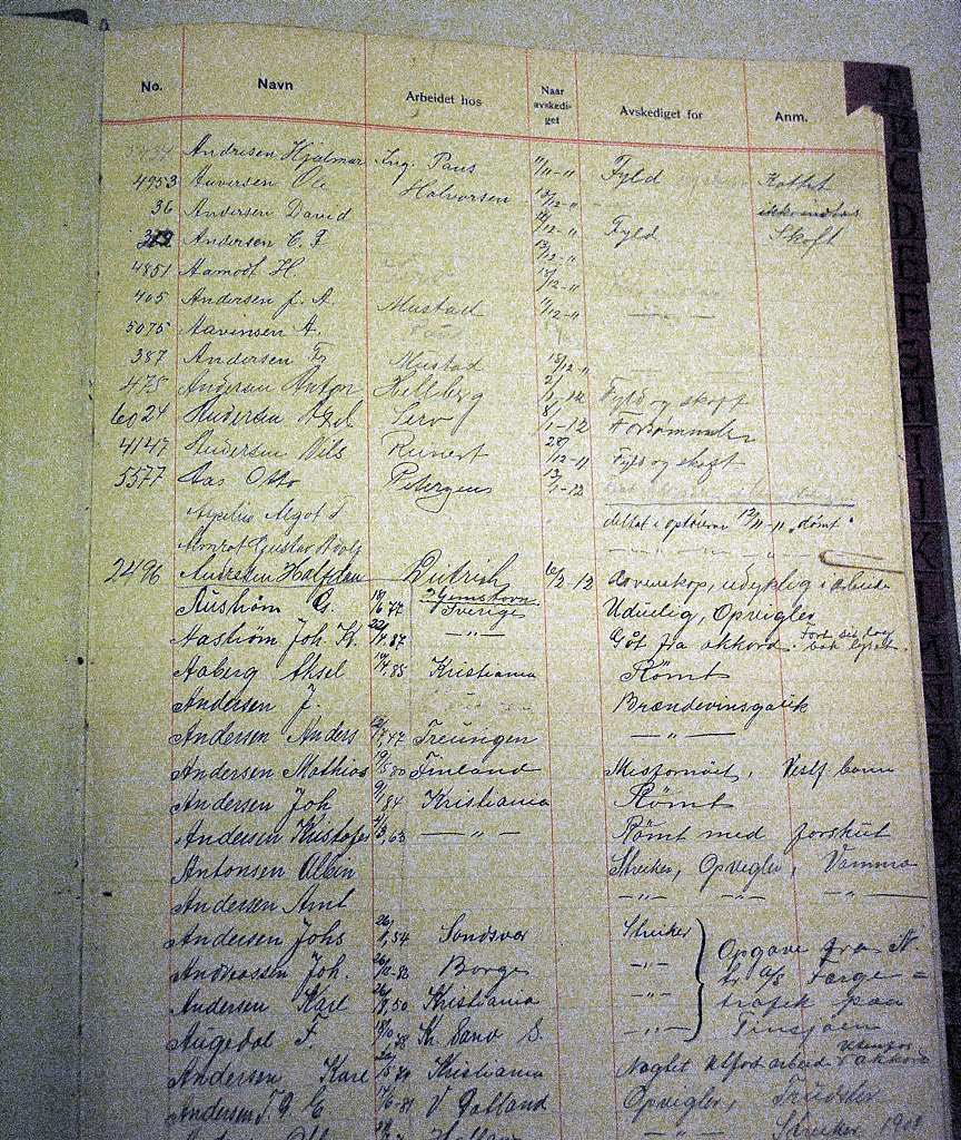 A protocol from 1911 listing, in alphabetical order, workers who were fired – or not wanted – at Rjukan Salpeterfabriker (The Potassium nitrate factory). The document is included in the Memory of the world in Norway (Norwegian: Norges dokumentarv).